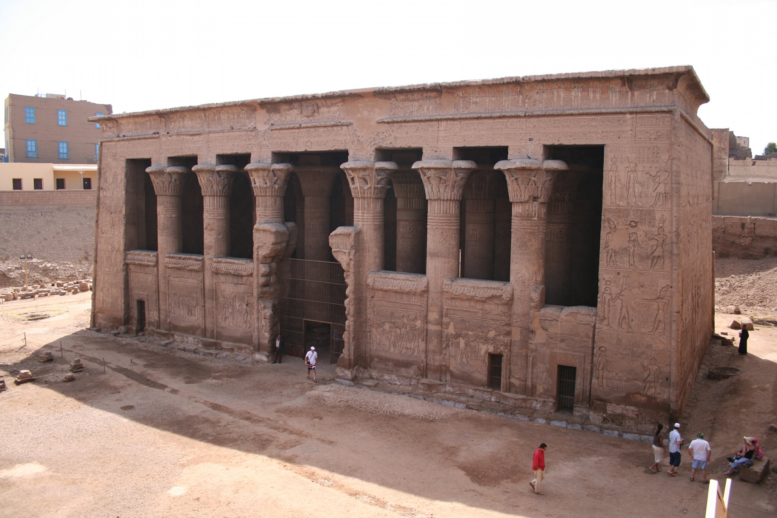 Temple of Khnum at Esna, Egypt. As can be seen the temple is well below the level of the village, this is taken from the roadside.